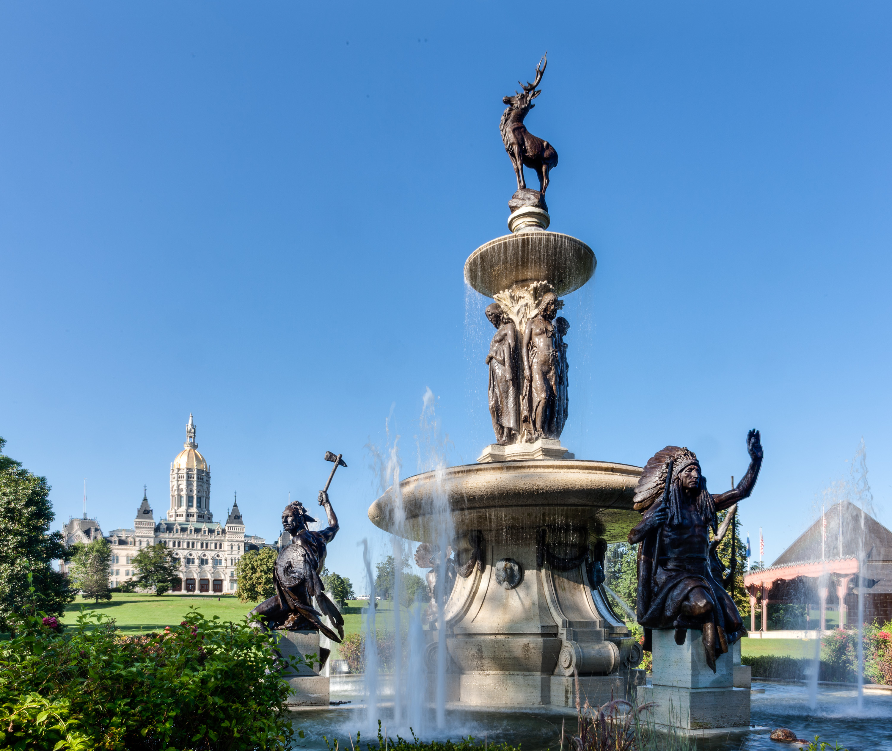 Connecticut Capitol Building and Corning Fountain, Bushnell Park, Hartford Connecticut.